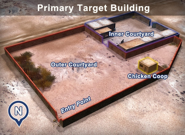 On May 26, 2008, Staff Sgt. Leroy A. Petry and the 2nd Platoon, D Company, 2nd Battalion, 75th Ranger Regiment conducted a high-risk daylight helicopter assault by landing on two helicopter landing zones north and south of the primary target building respectively. The mission was to capture a high-value target believed to be located in the primary target building. At 1:34 p.m., on May 26, 2008, the assault force began to clear the objective area. Petry's task was to locate himself with the platoon headquarters in the target building once it was secured and serve as the senior noncommissioned officer at that site for the remainder of the operation. Recognizing one of the assault squads needed assistance clearing their assigned building, Petry relayed to the platoon leader that he was moving to the squad to provide additional supervision and guidance during the clearance of the building.